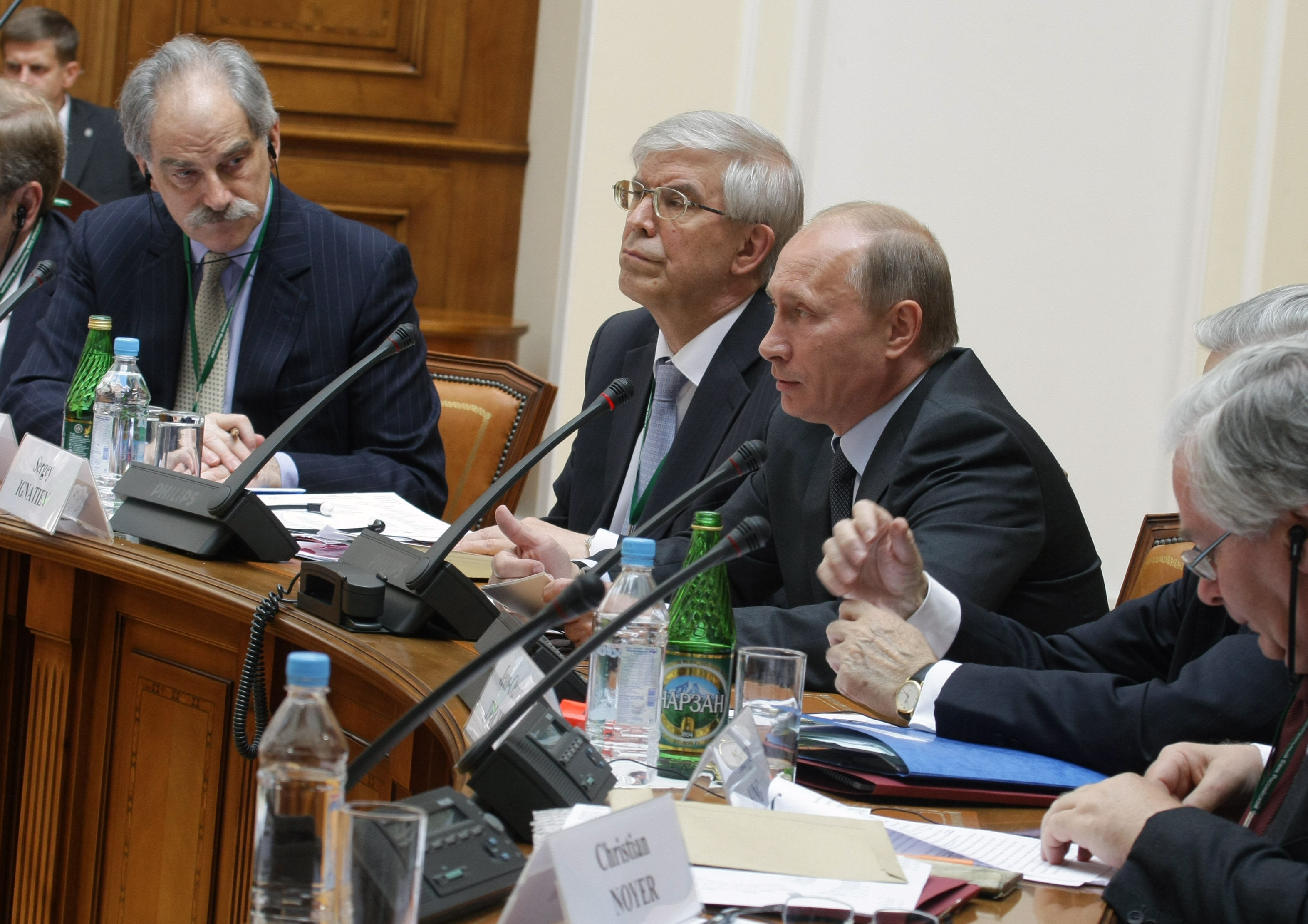 “Prime Minister Vladimir Putin takes part in international conference in Bank of Russia”. June 18, 2010. From left: Prime Minister Vladimir Putin, Bank of Russia's Chairman Sergei Ignatyev and First Deputy Managing Director of the International Monetary Fund John Lipsky at the summit conference "Central banks and the world economic development: new challenges and outlooks."